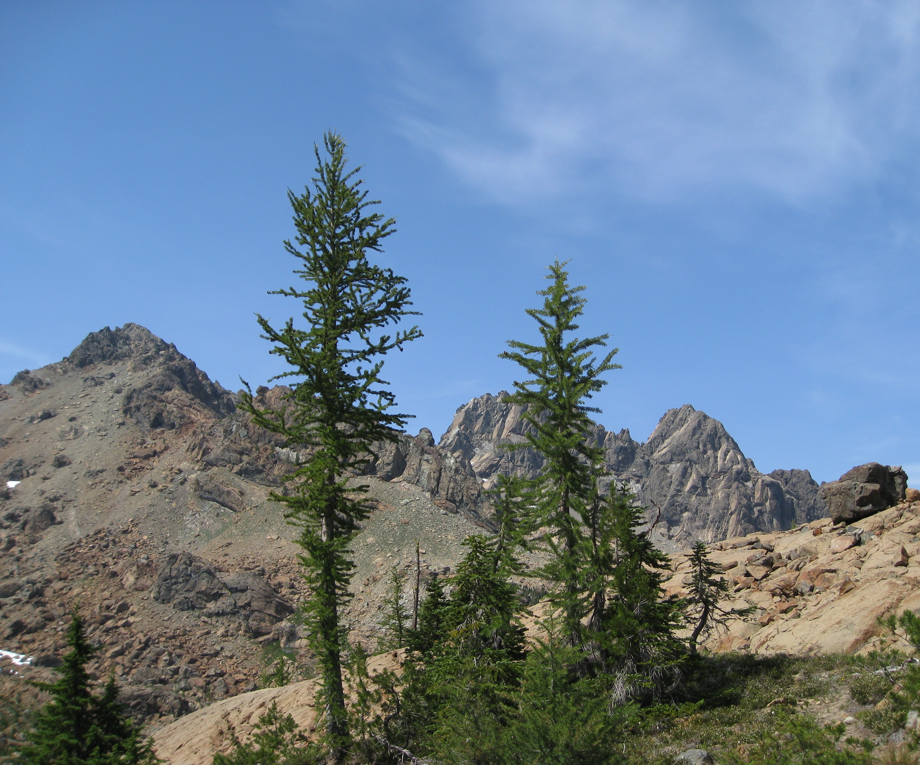 Larix lyallii, Headlight Basin, Ingalls Lake, Washington, USA